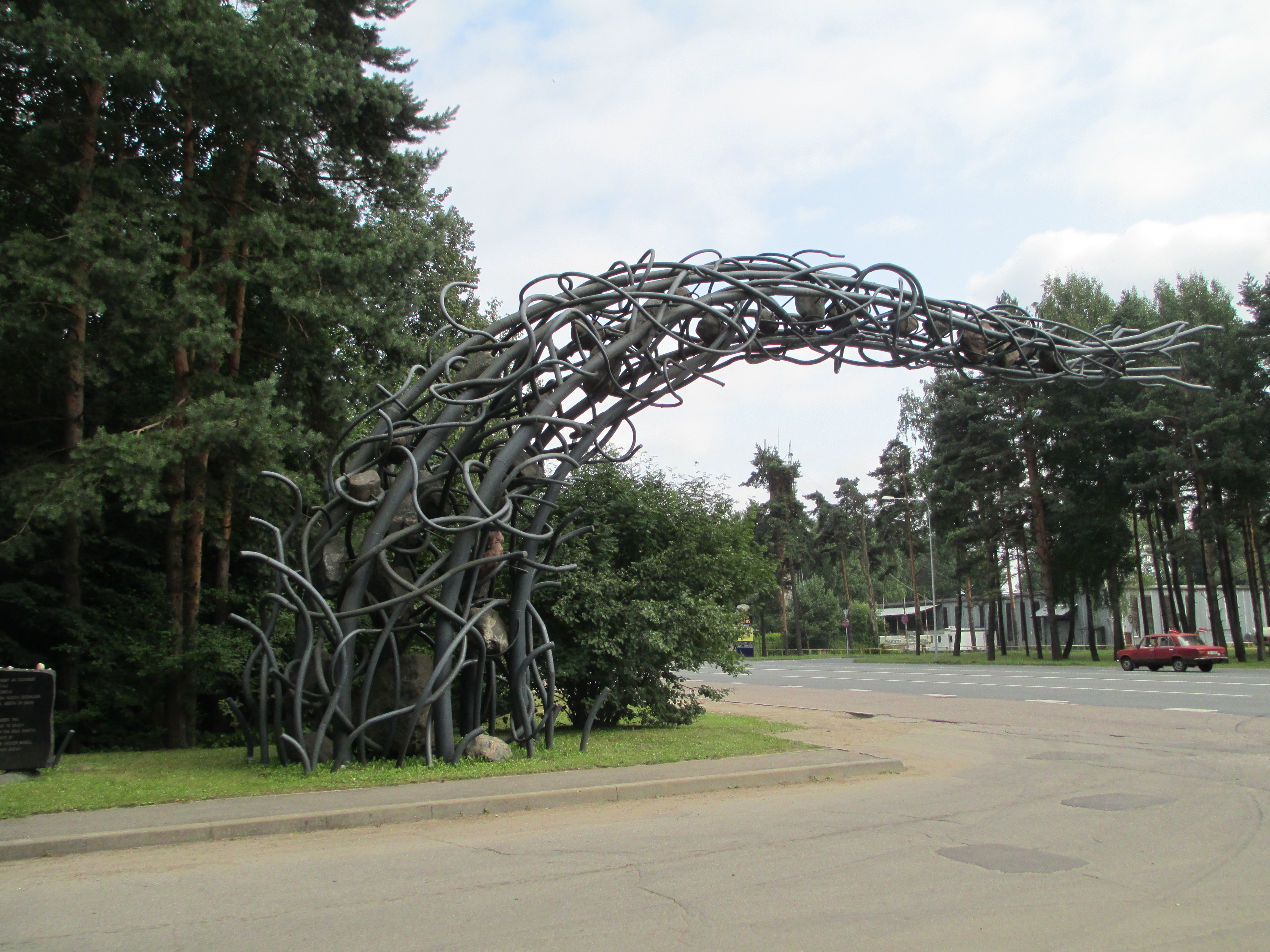 entrance to rumbula forest killing site